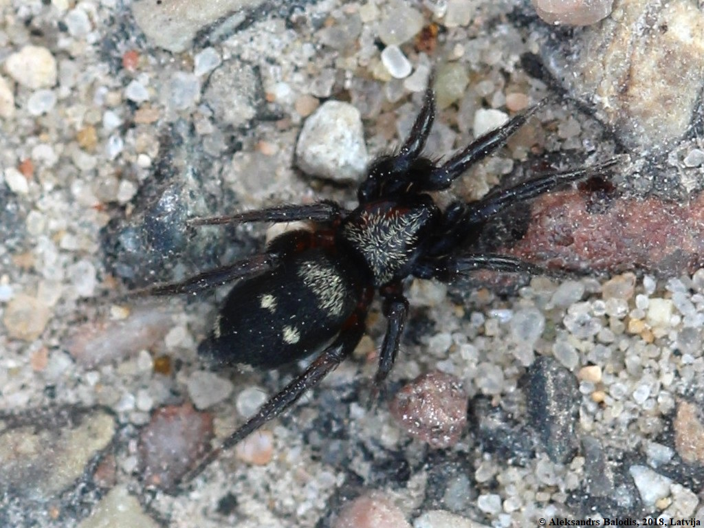 Callilepis nocturna